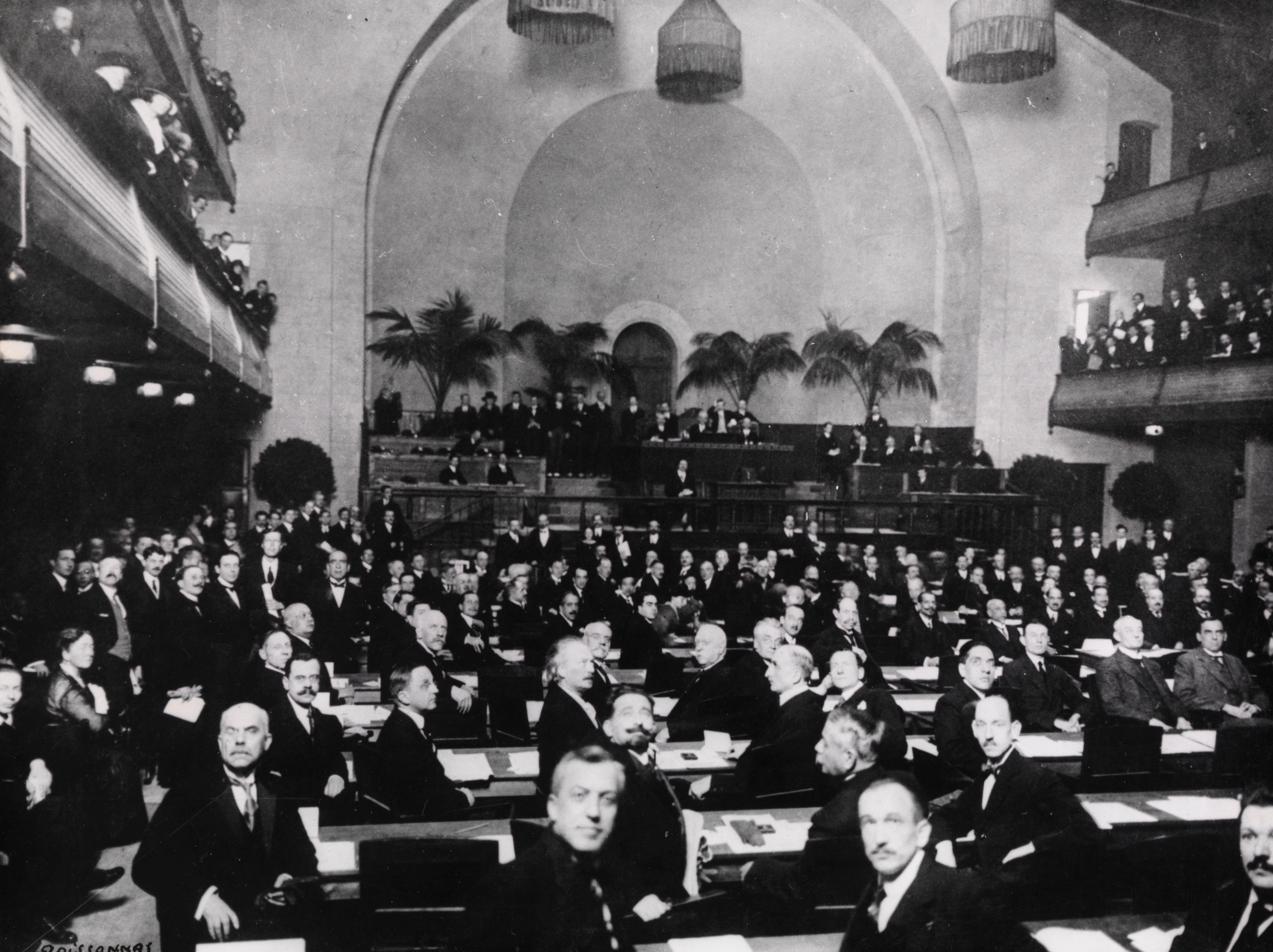 Salle de la Reformation. The official opening of the League of Nations. Fridtjof Nansen is sitting second from the left in row four.